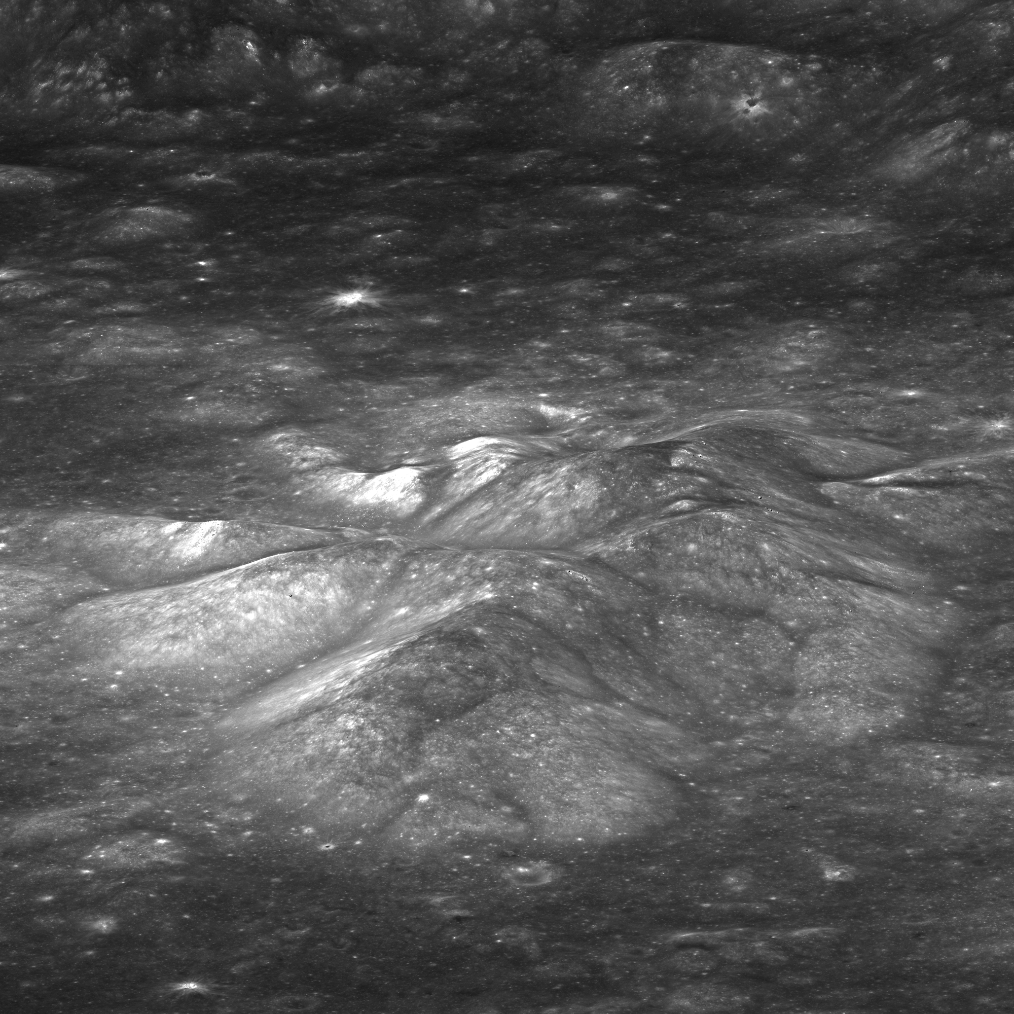 The central peak of Bullialdus rises above the crater floor with the crater wall in the background. LROC NAC oblique M1099038207LR, north is to the left [NASA/GSFC/Arizona State University].